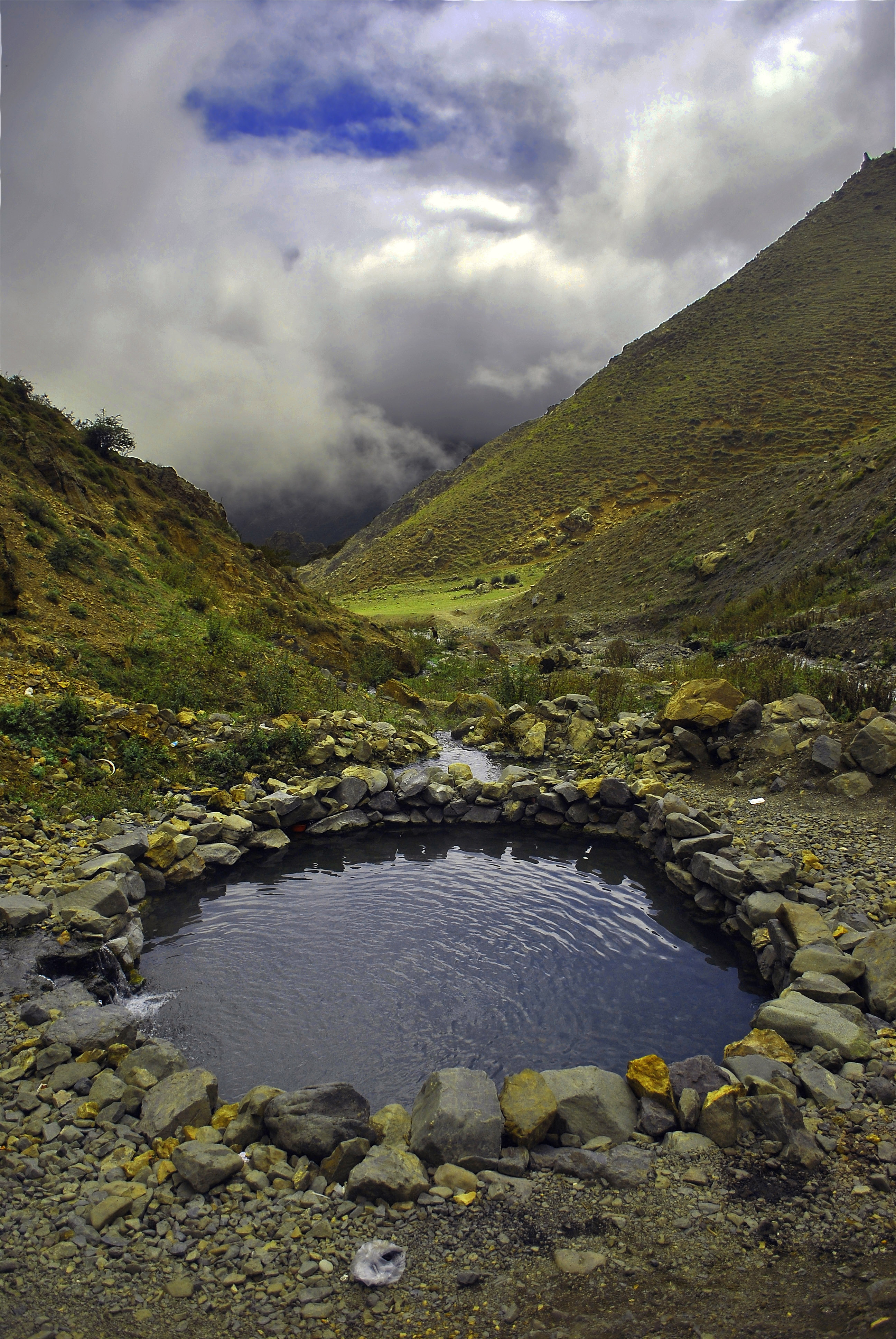 A hot spring in Mazandaran province